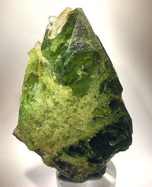 Titanite Locality: Fazenda Rubin Pimenta Mine, Capelinha, Jequitinhonha valley, Minas Gerais, Southeast Region, Brazil (Locality at ) WOW! This is a HUGE single crystal for the locality, of unusually rich limey-green color for ANY sphene locality, and it is sharply formed and twinned. What is more, it has great lustre on the frontal display as shown (though the twinning plane is coated with ingrown chlorite). This has to be one of the best large Brazilian sphenes on the market, and certainly would rank up there in terms of anything dug out of the ground. In person, it is even more impressive. Normally this is a species that doesn't excite me but this crystal surprised me. These were found, I am told, in the late-80s but I have never seen one of such magntitude on the market. Weight=540 grams 13.6 x 8.9 x 2.3 cm